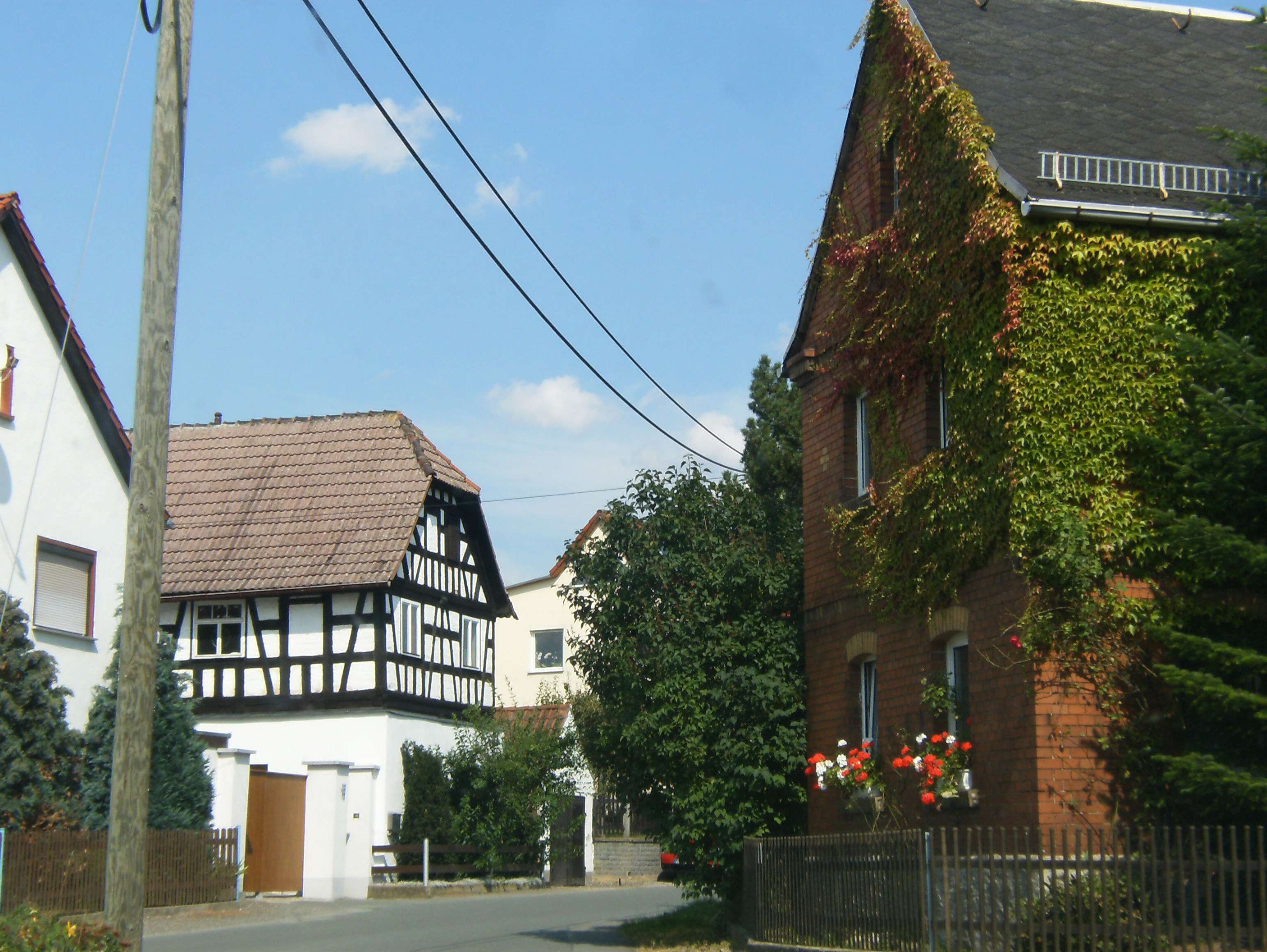 Gera Steinbrücken, village view.